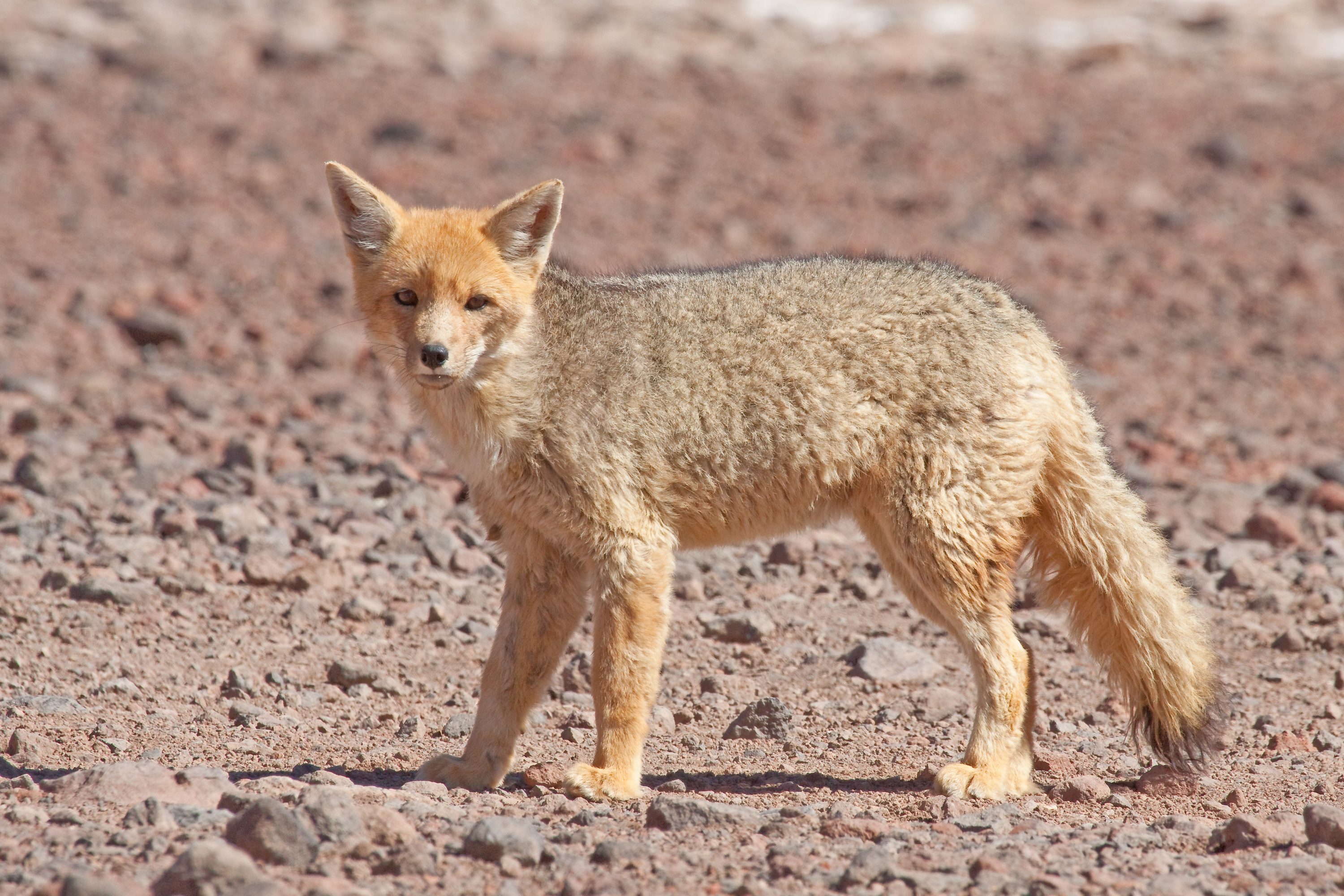 Lycalopex culpaeus, A Culpeo or Andean Fox at the border between Bolivia and Chile.